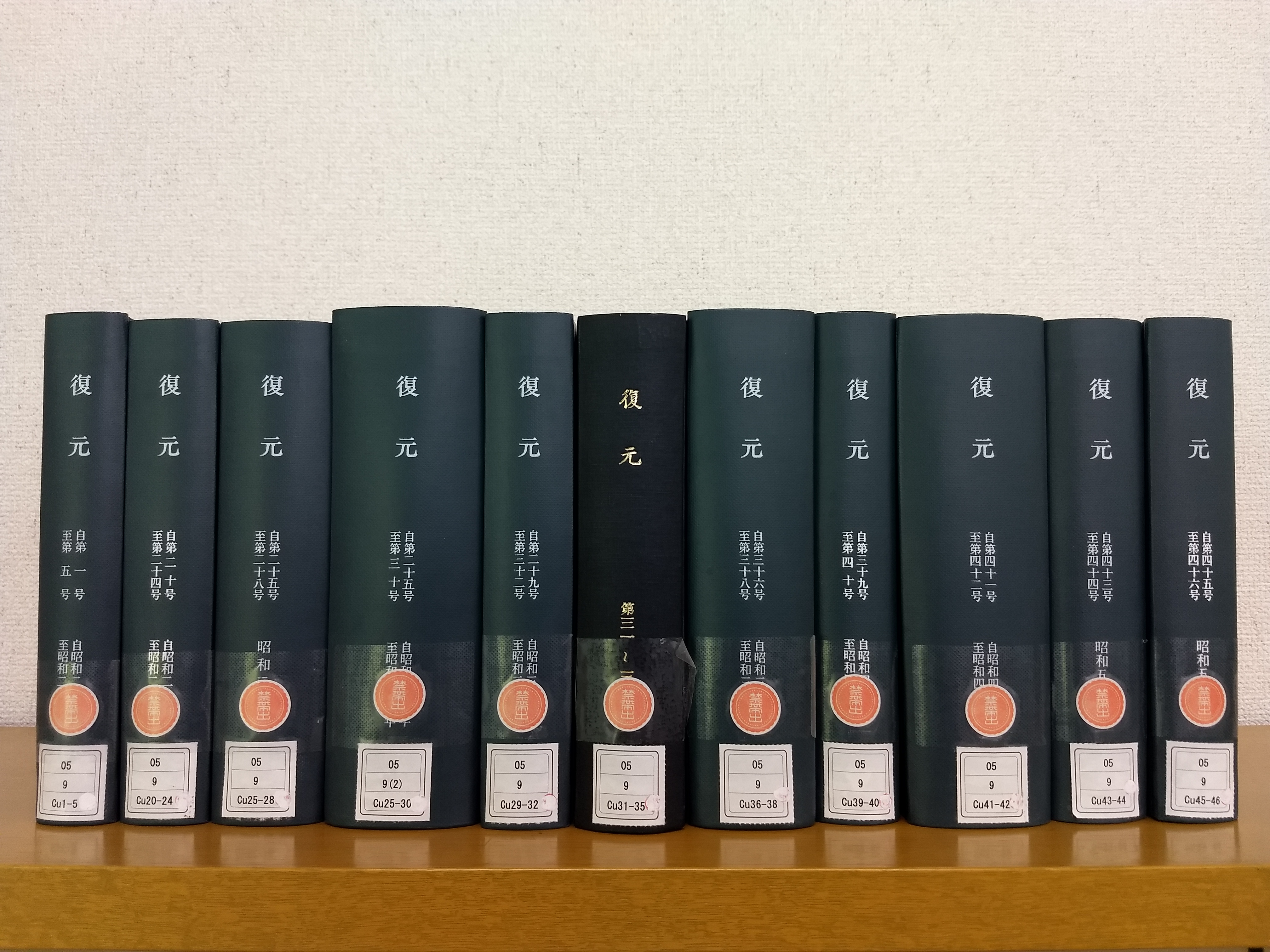 A collection of research journals from Tenrikyo Church Headquarters called 'Fukugen' (Restoration).